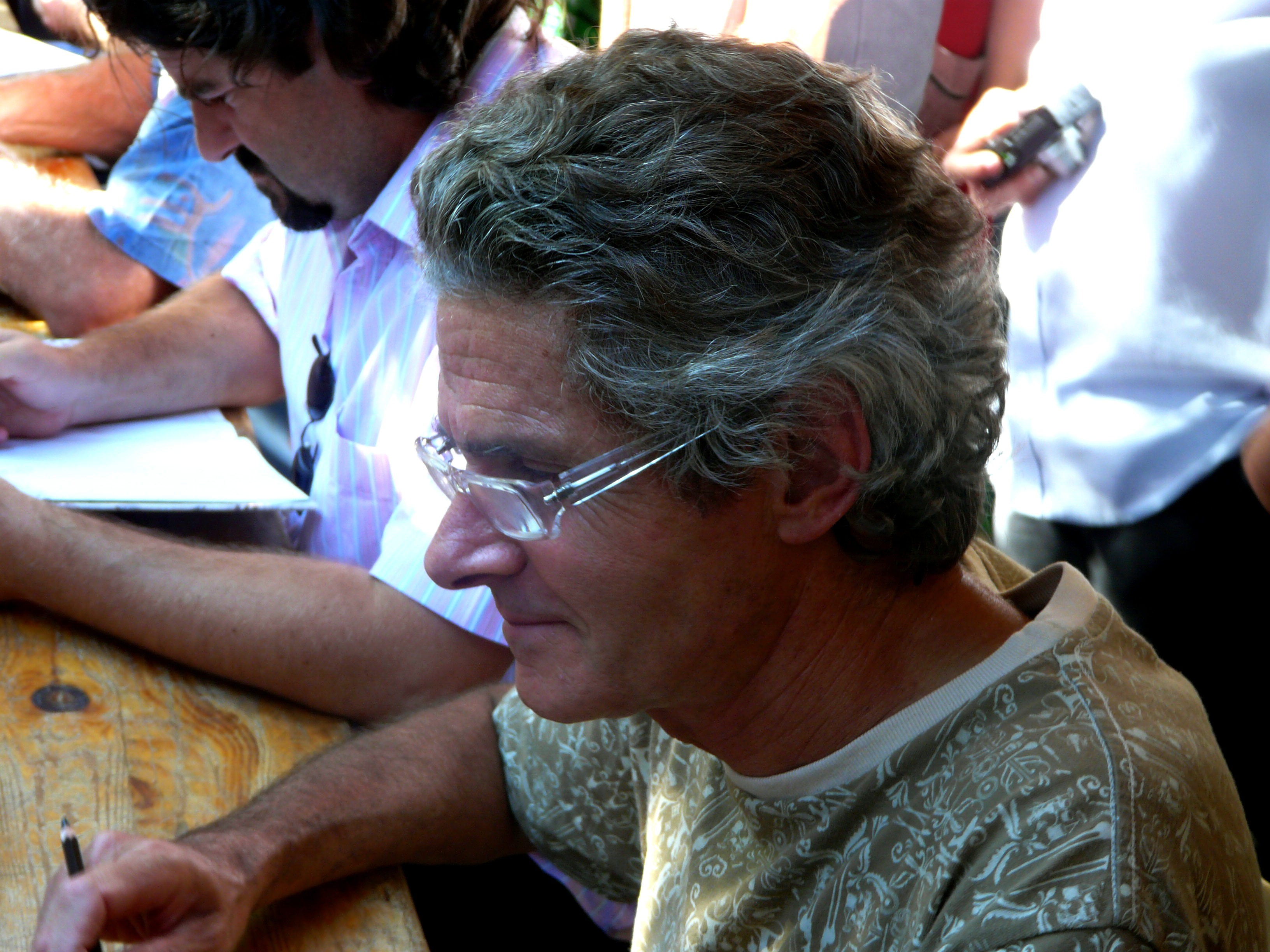 Photographs taken during the International Comic Festival of Sollies Ville, France